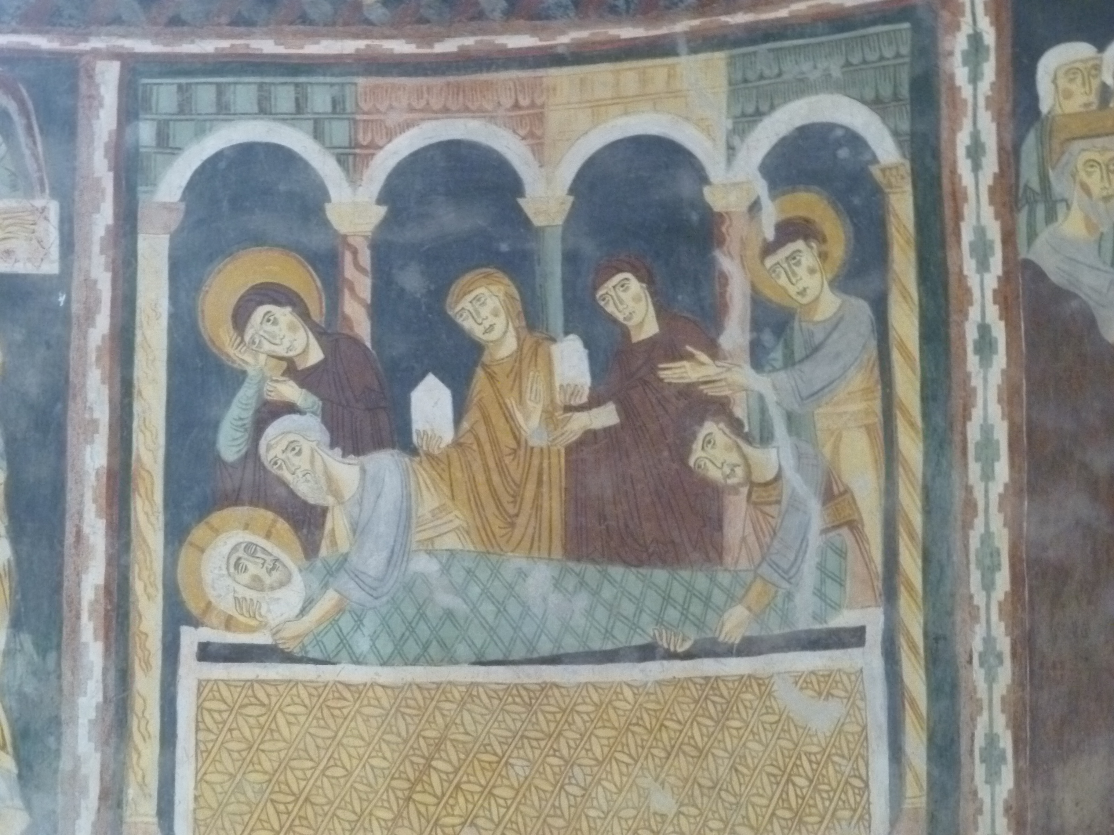 Burial of Jesus, scene from the Passion of Christ; close-up of the Romanesque frescoes (end 12the century) in the apse of the Basilica di Saccargia; Codrongianos, northern Sardinia, Italy.